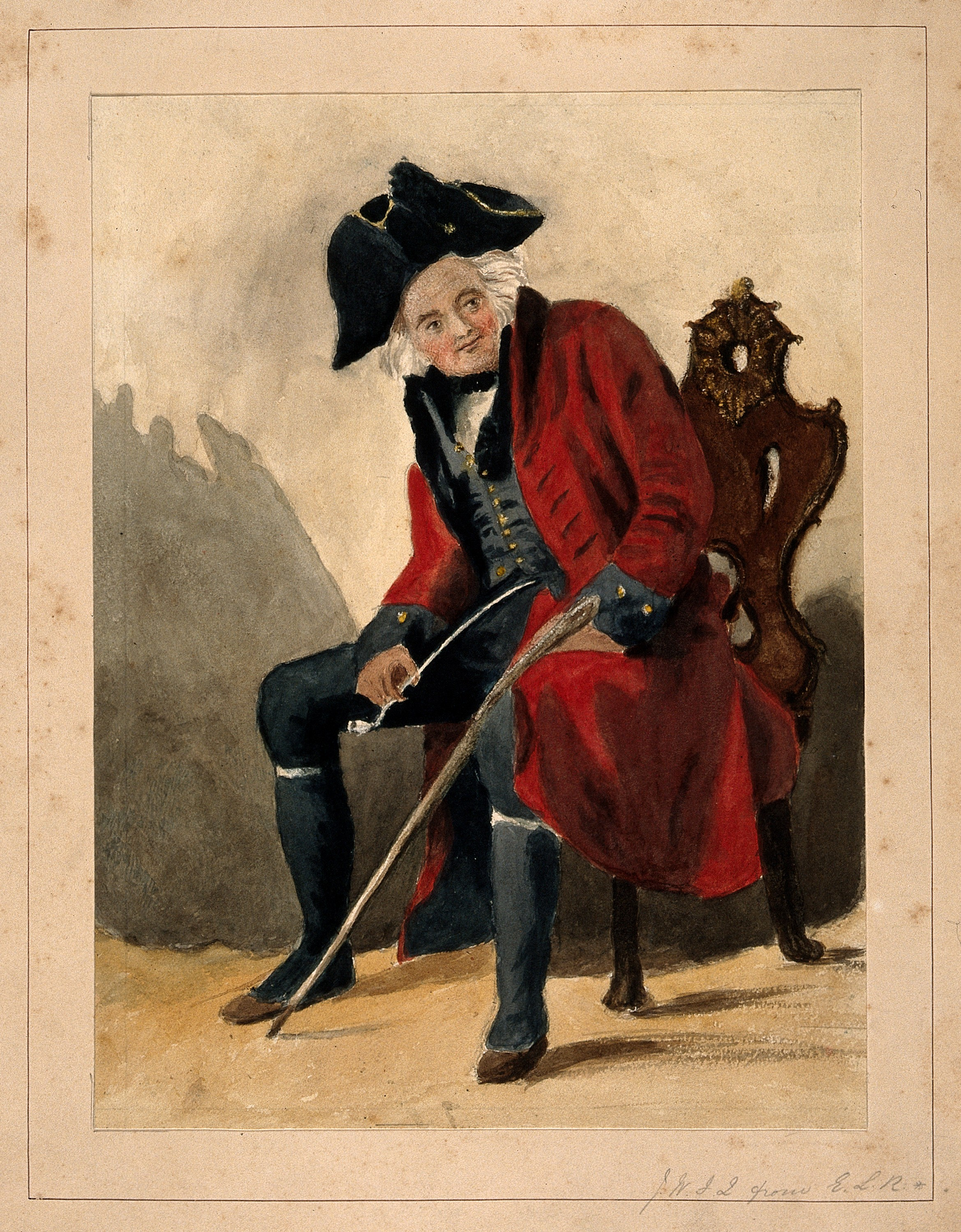 A Chelsea Pensioner, seated, wearing a red coat and tricorn hat, holding a pipe and a stick. Watercolour painting. Iconographic Collections Keywords: CHELSEA PENSIONER; ic; Royal Hospital (Chelsea)